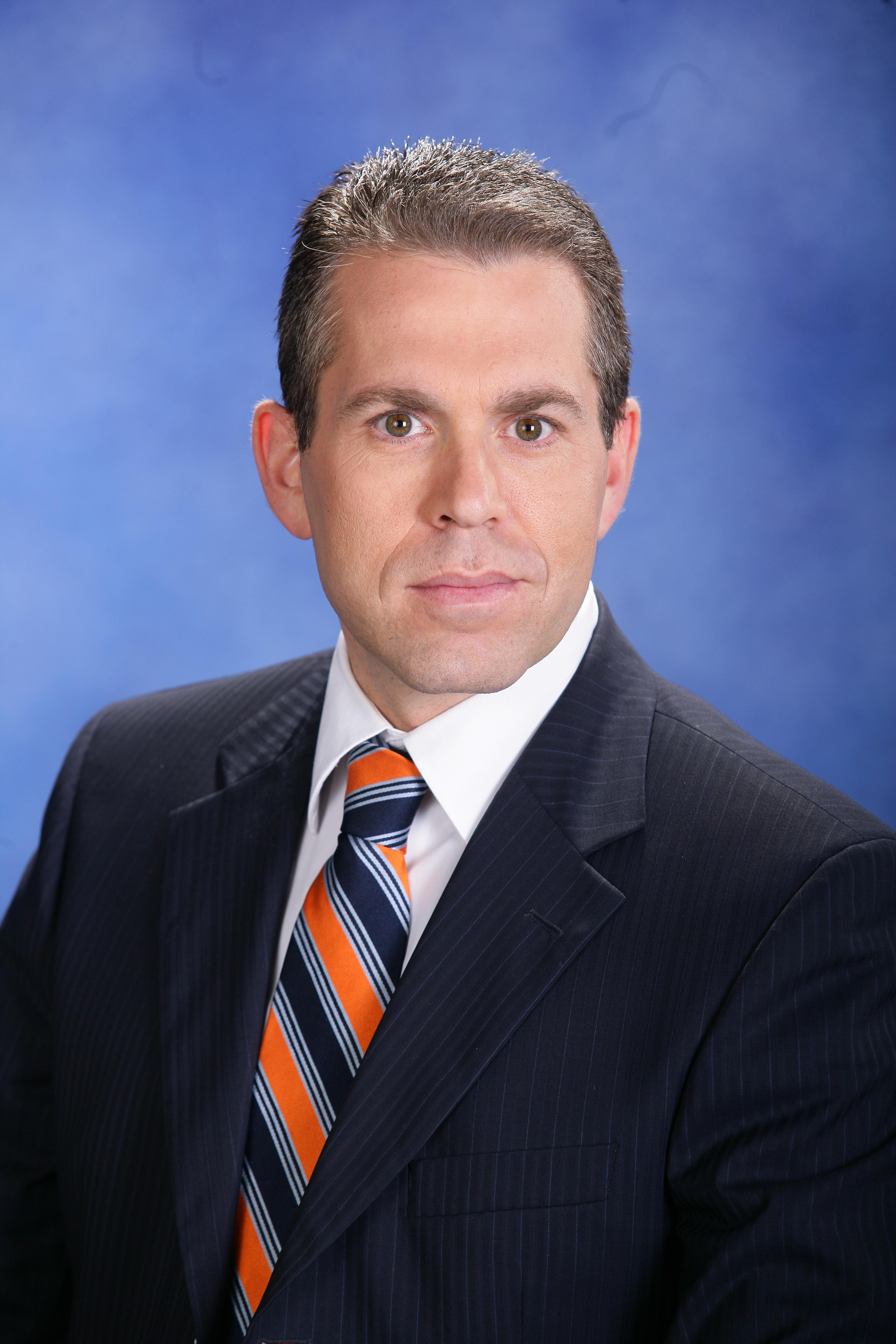 Gilad Erdan Knnesset member